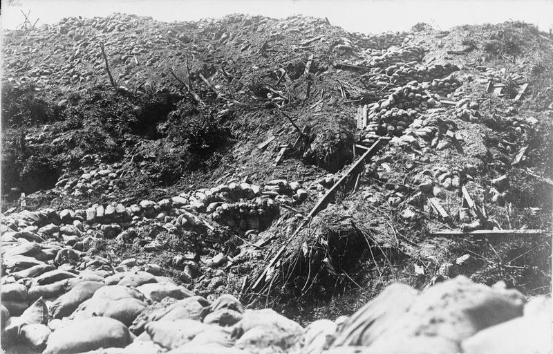 Woerner Eugen (herr) Collection Trenches on the railway embankment: Hill 60, near Ypres, July 1916.